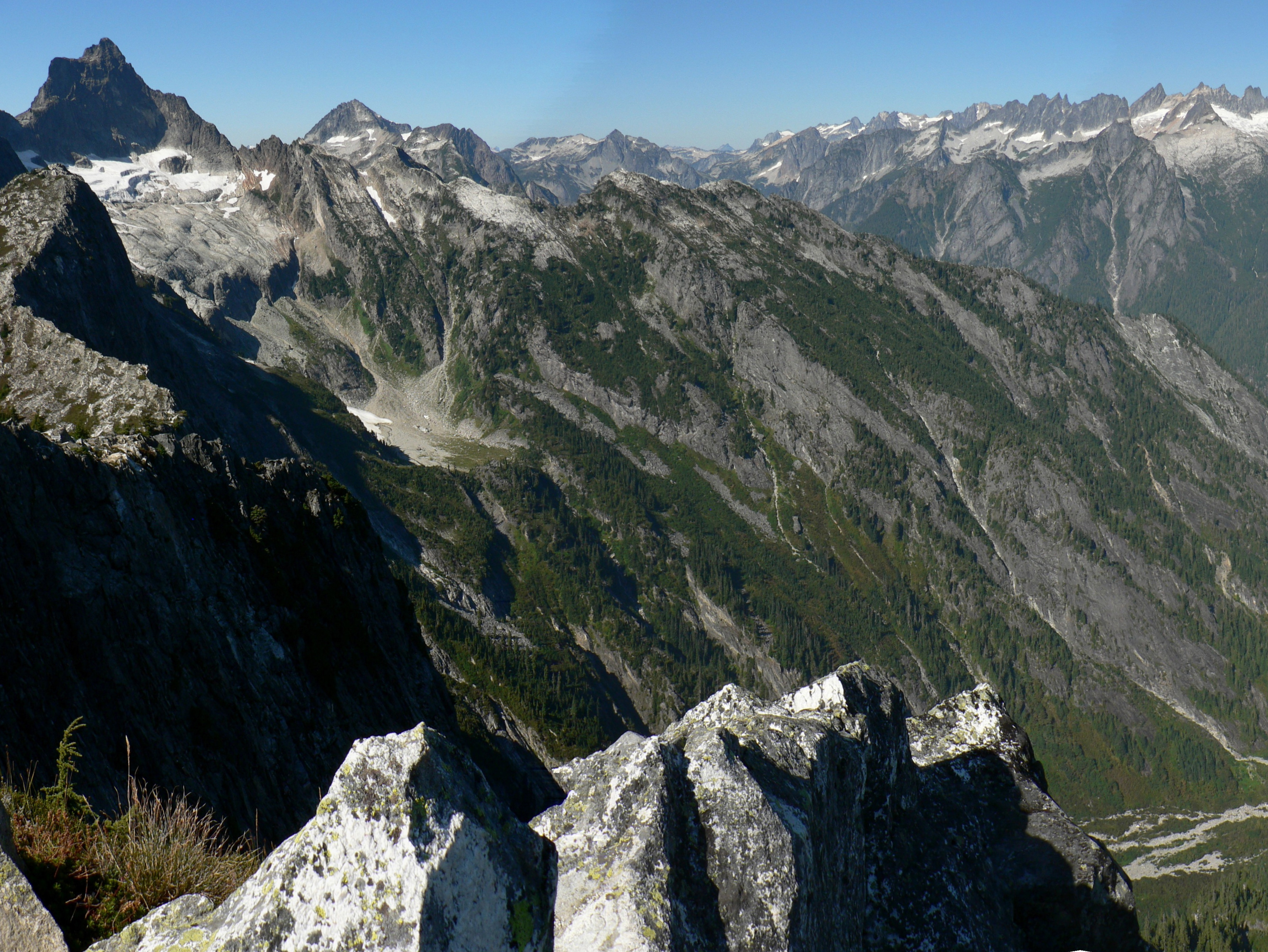 Mount Triumph (left, middle distance with glacier), Mount Despair, Mount Terror (left), Pinnacle Peak, The Pyramid, Inspiration Peak, McMillan Spires (right)